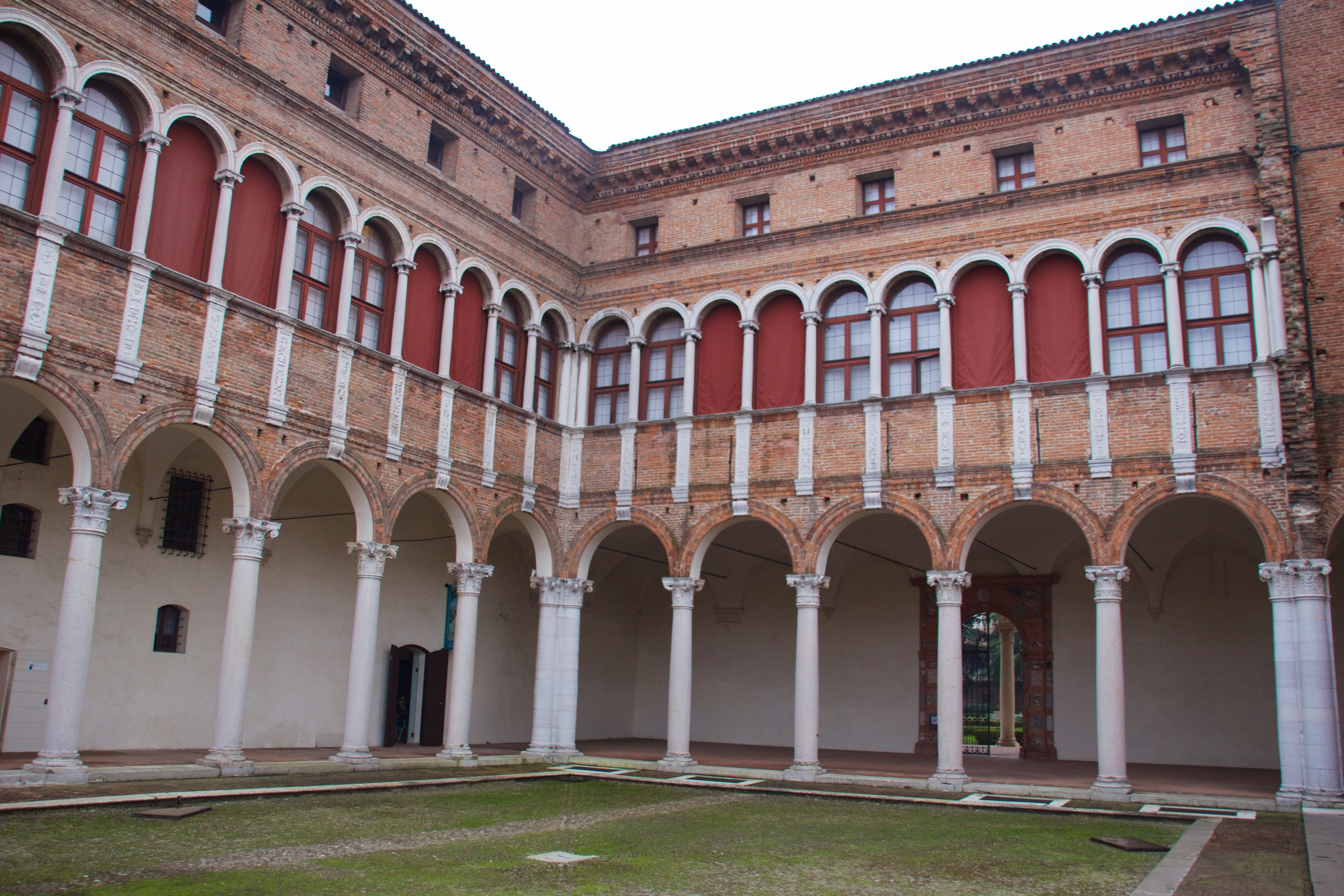 Palazzo Costabili, Ferrara, Italy